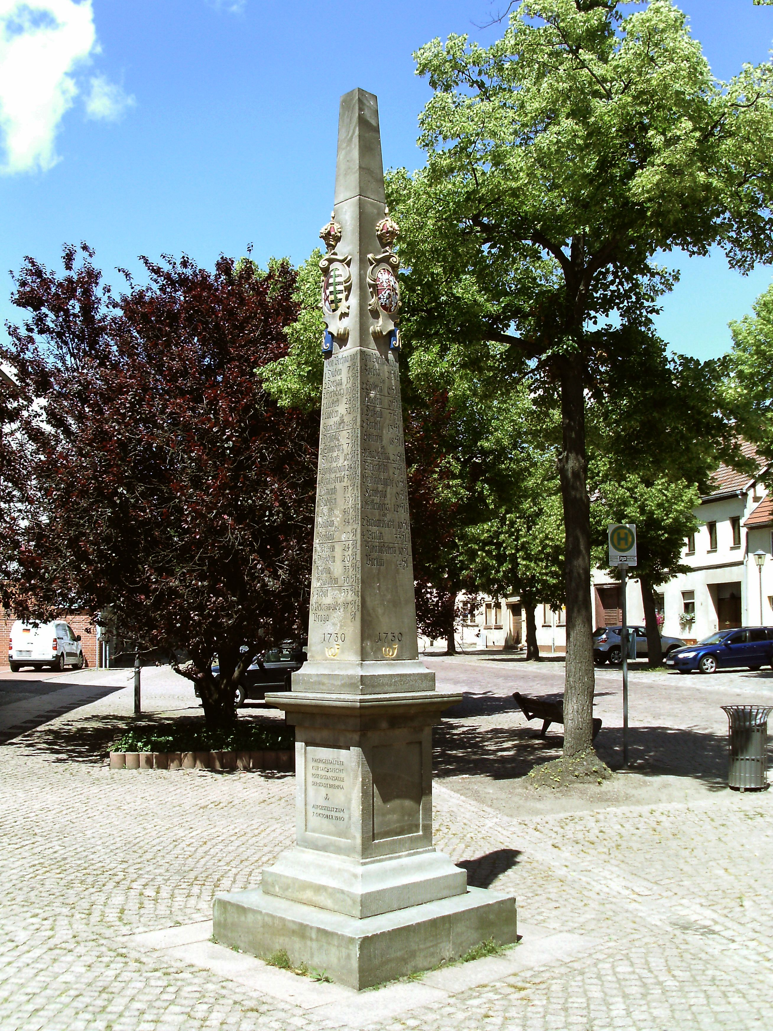 Post distance obelisk in Brehna (Sandersdorf-Brehna, Anhalt-Bitterfeld district, Saxony-Anhalt)